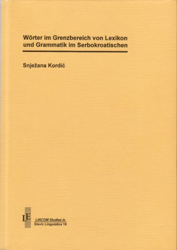 Book cover of Snježana Kordić Wörter im Grenzbereich von Lexikon und Grammatik im Serbokroatischen, Munich 2001